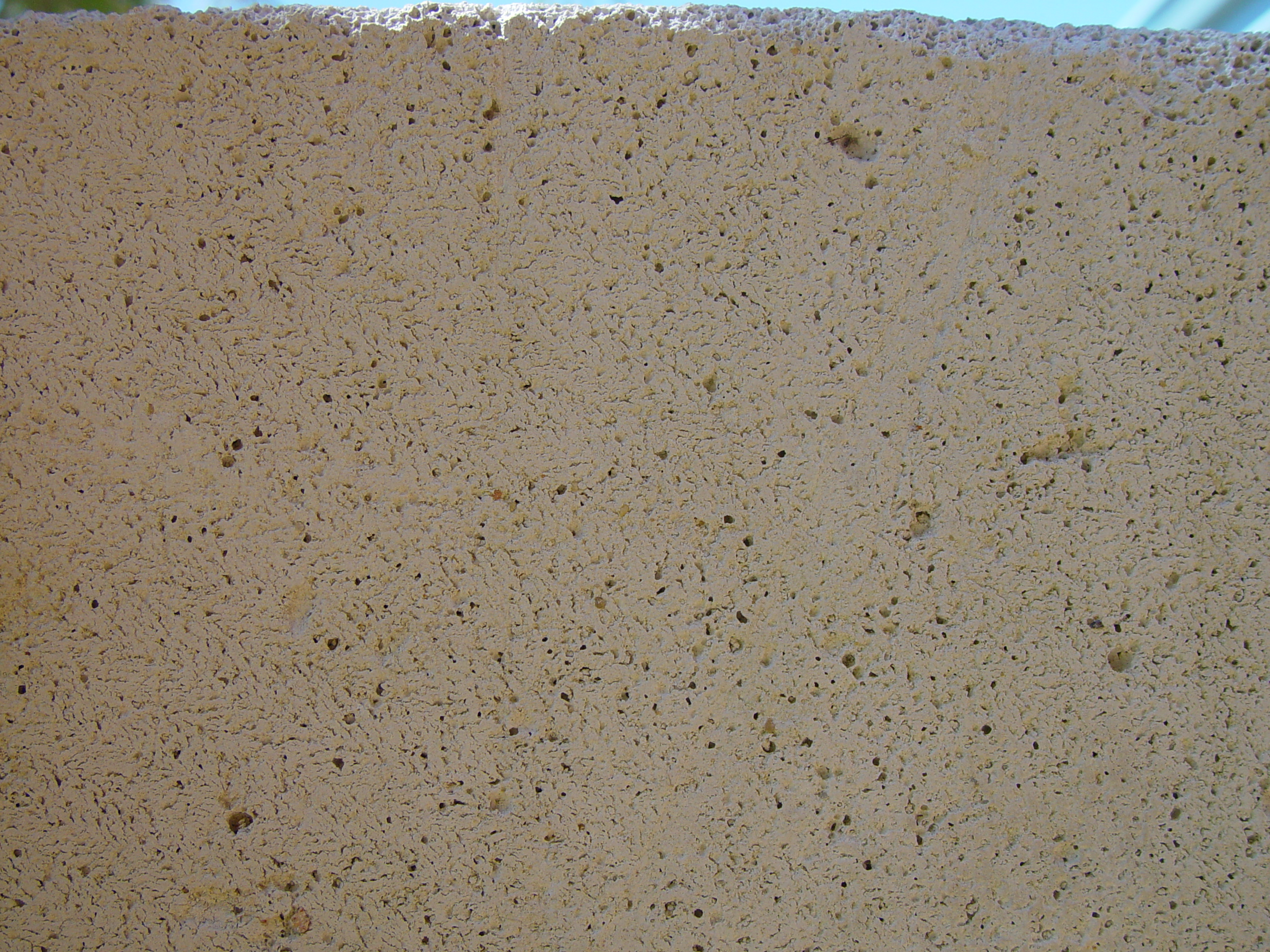 Spongolite block, as used in building construction.